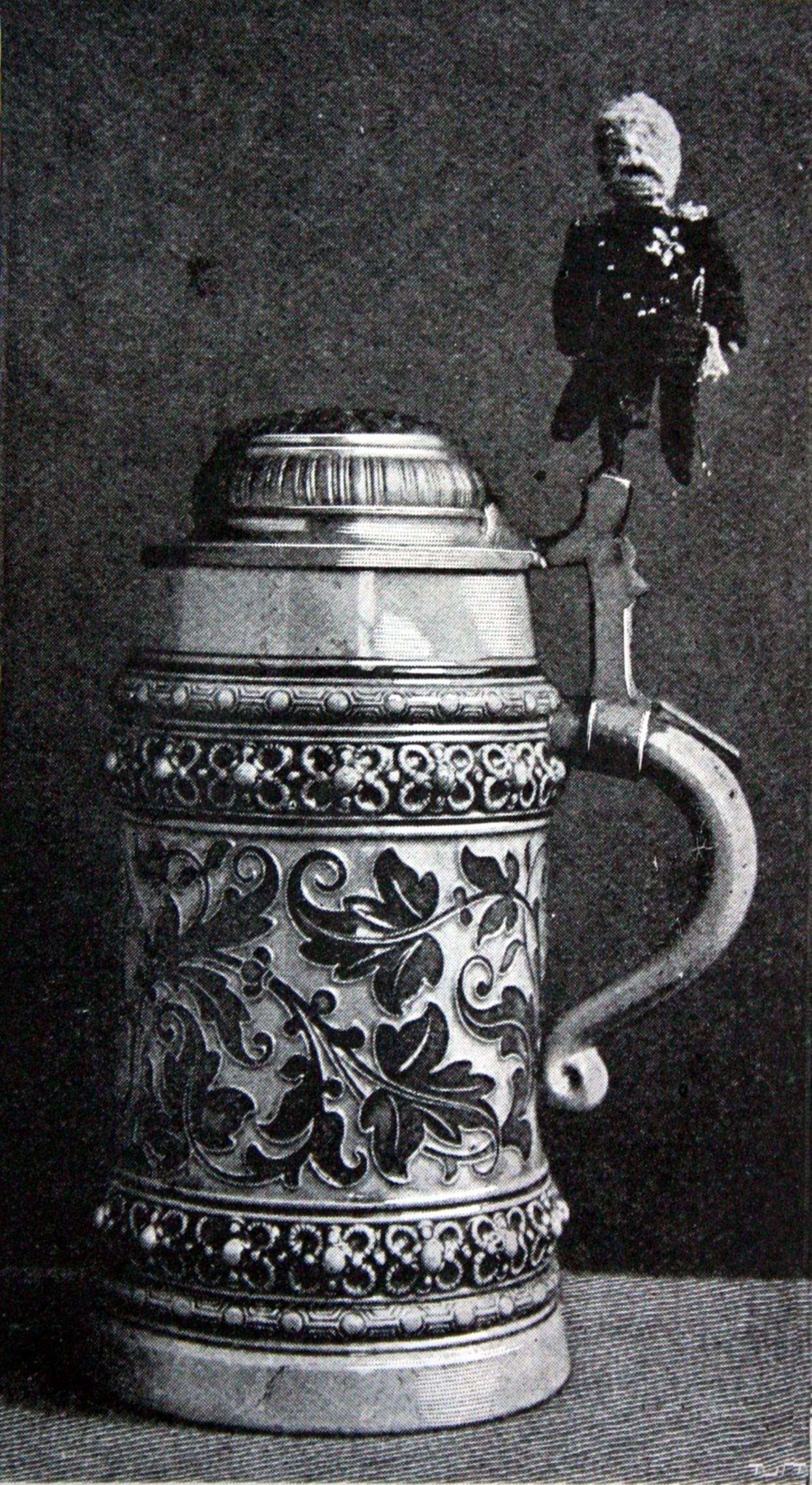 Beer Stein Marker from article by George Dollar on "Beer-Markers", showing Count Leo von Caprivi